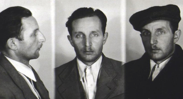 Ryszard Widelski (1913-1949) - soldier of Armia Krajowa , member of anti-communist underground in Poland after WW II. Arrested by communist political police, executed